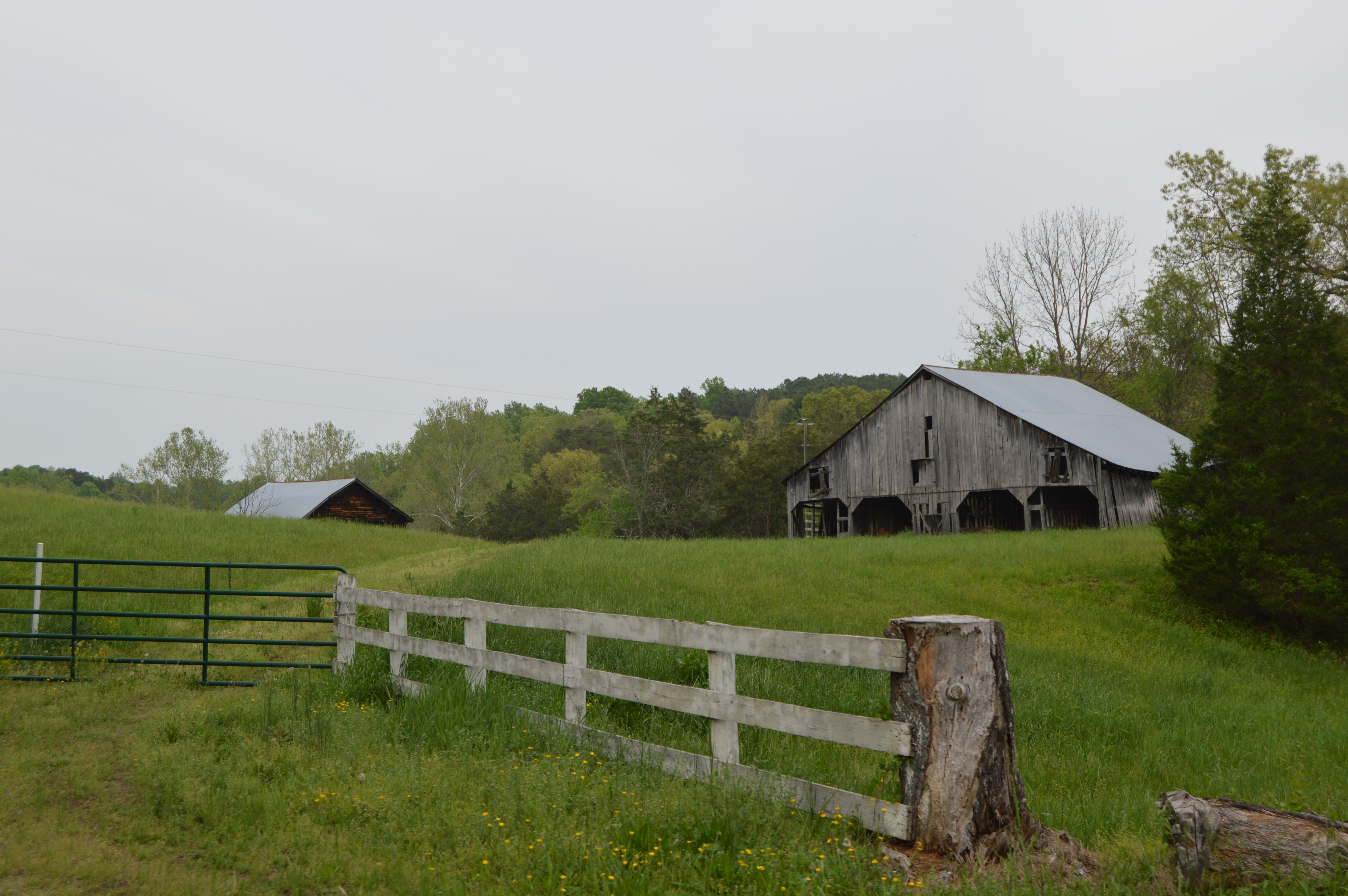 Barns on Simmons Gap Road north of Earlysville in Albemarle County, Virginia, United States. They are part of the Estes Farm complex, which is listed on the National Register of Historic Places.